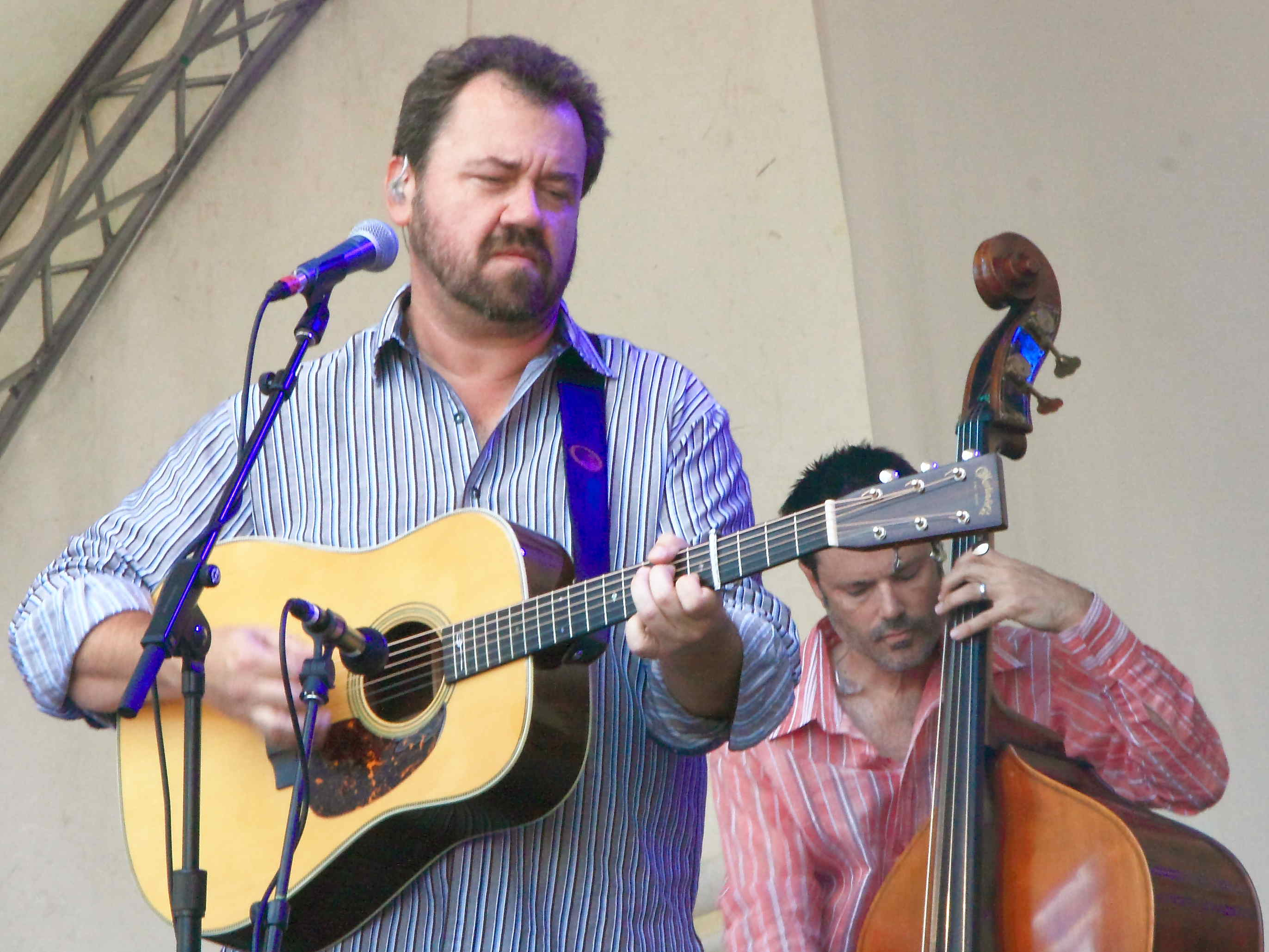 Alison Krauss & Union Station at TFF Rudolstadt 2012